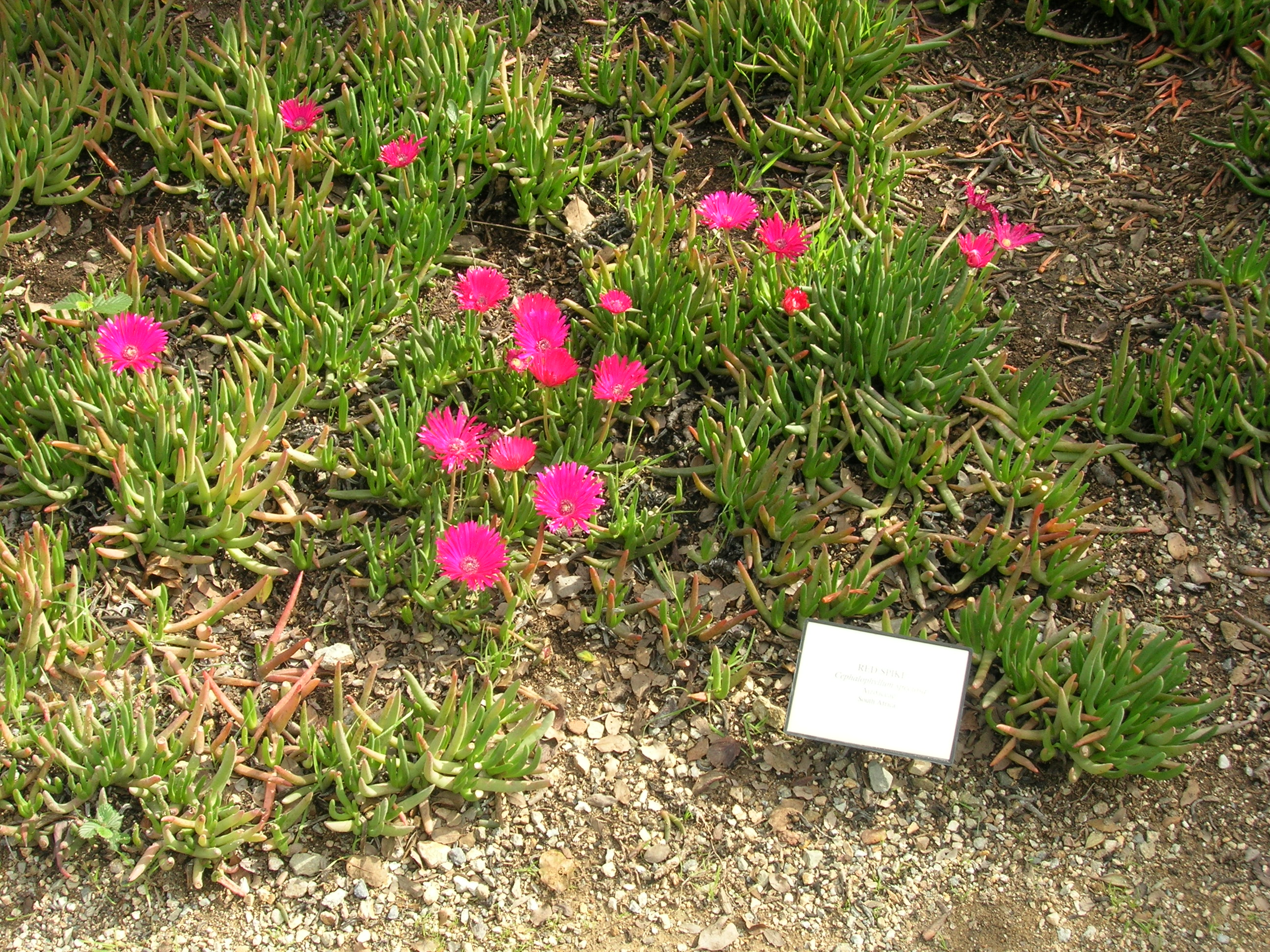 Cephalophyllum alstonii — Red Spike Ice Plant; Aizoaceae In the Wrigley Botanical Garden, on Catalina Island in Southern California. Native to South Africa. i020606 108